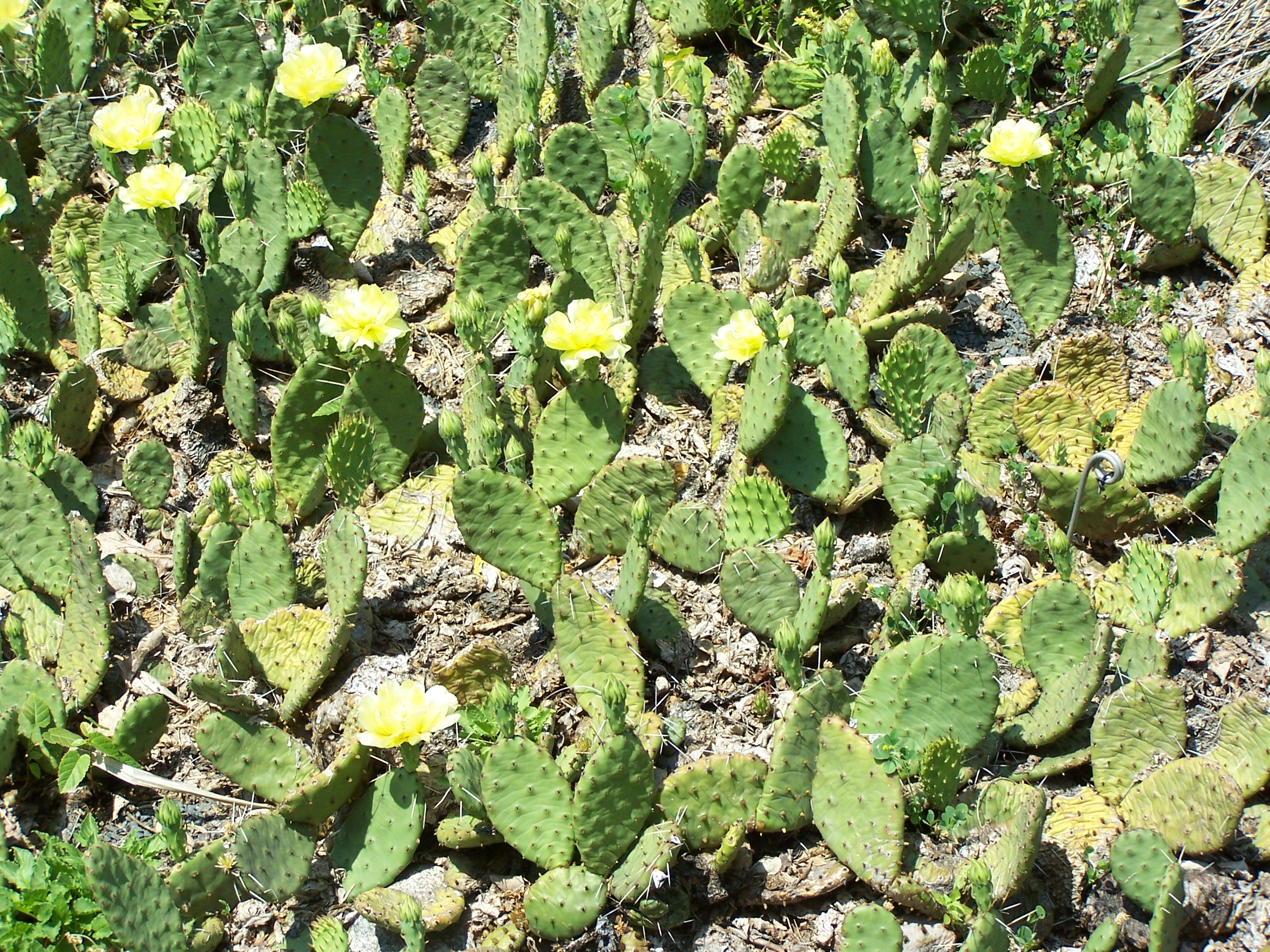 Prickly pear at Minnesota Landscape Arboretum